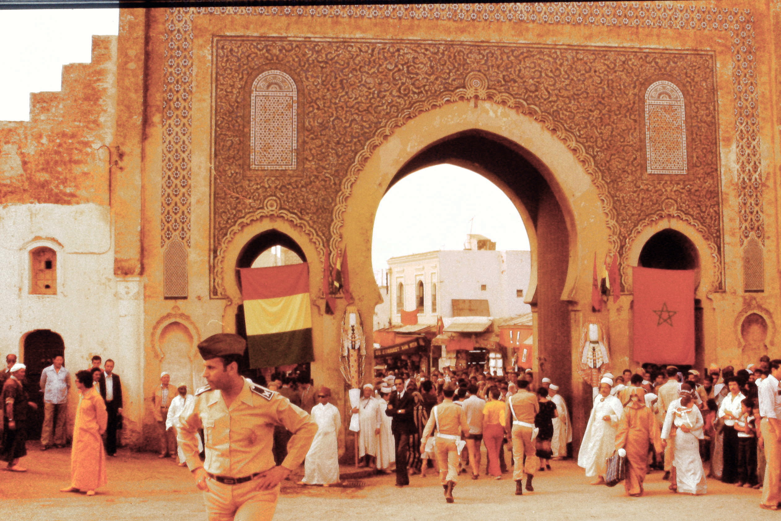 Morocco street scene with city gate